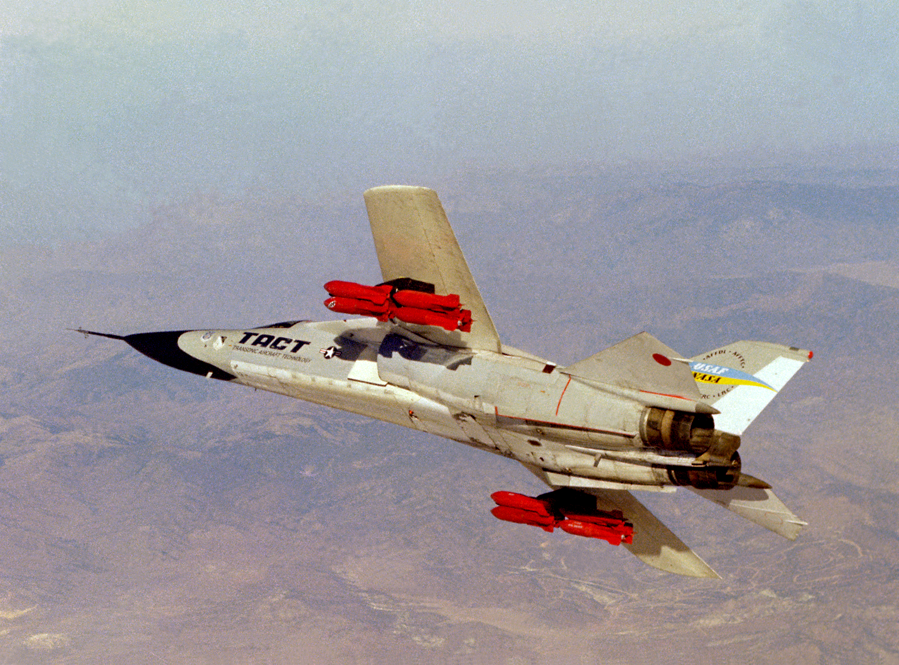 The General Dynamics TACT/F-111A (Serial #63-9778) banks over the Mojave Desert. Note the fully loaded racks of inert pratice bombs which were carried for weapon loads evaluations on the supercritical wing (SCW) that was the main feature of the Transonic Aircraft Technology F-111 research program.